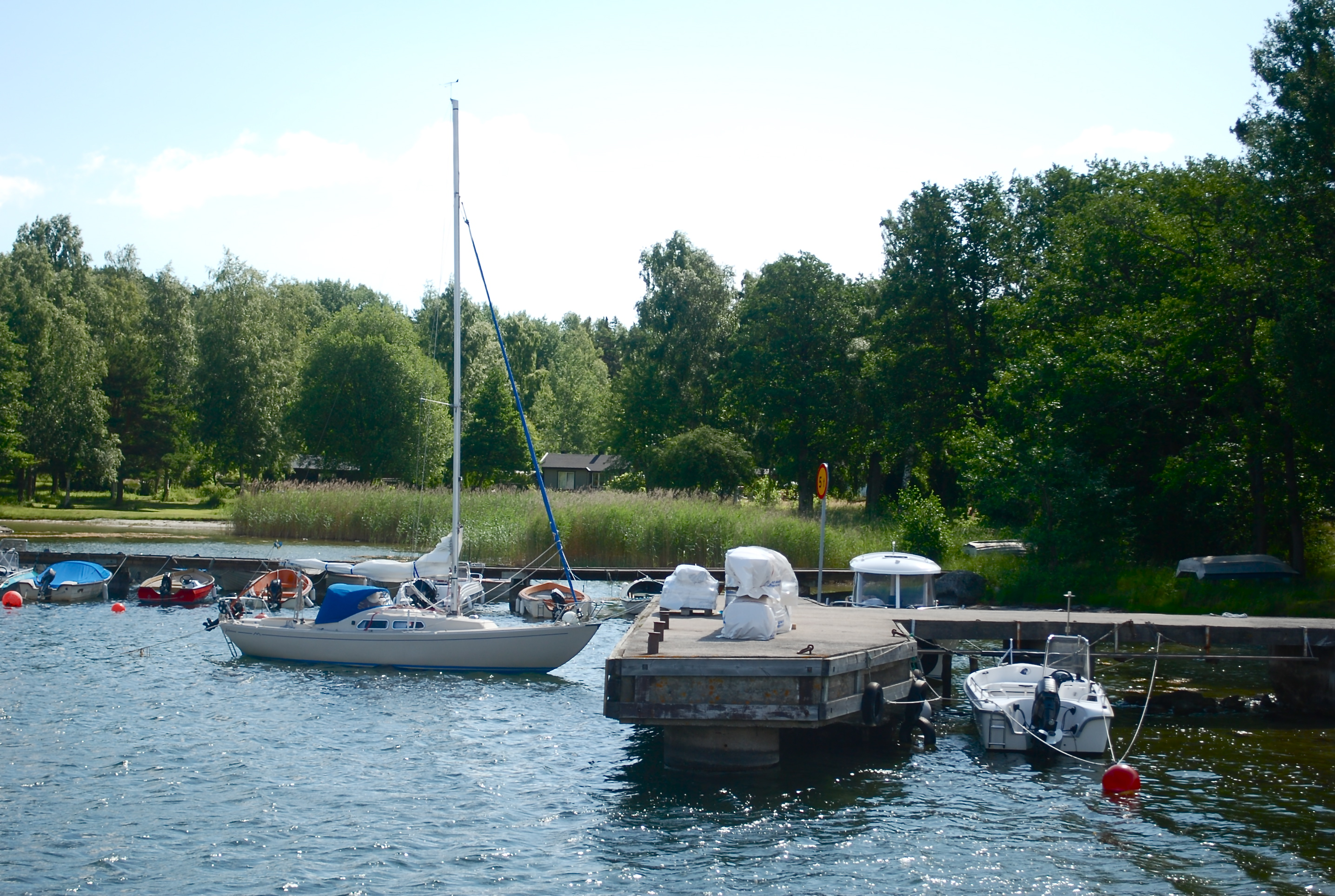 Aspö.